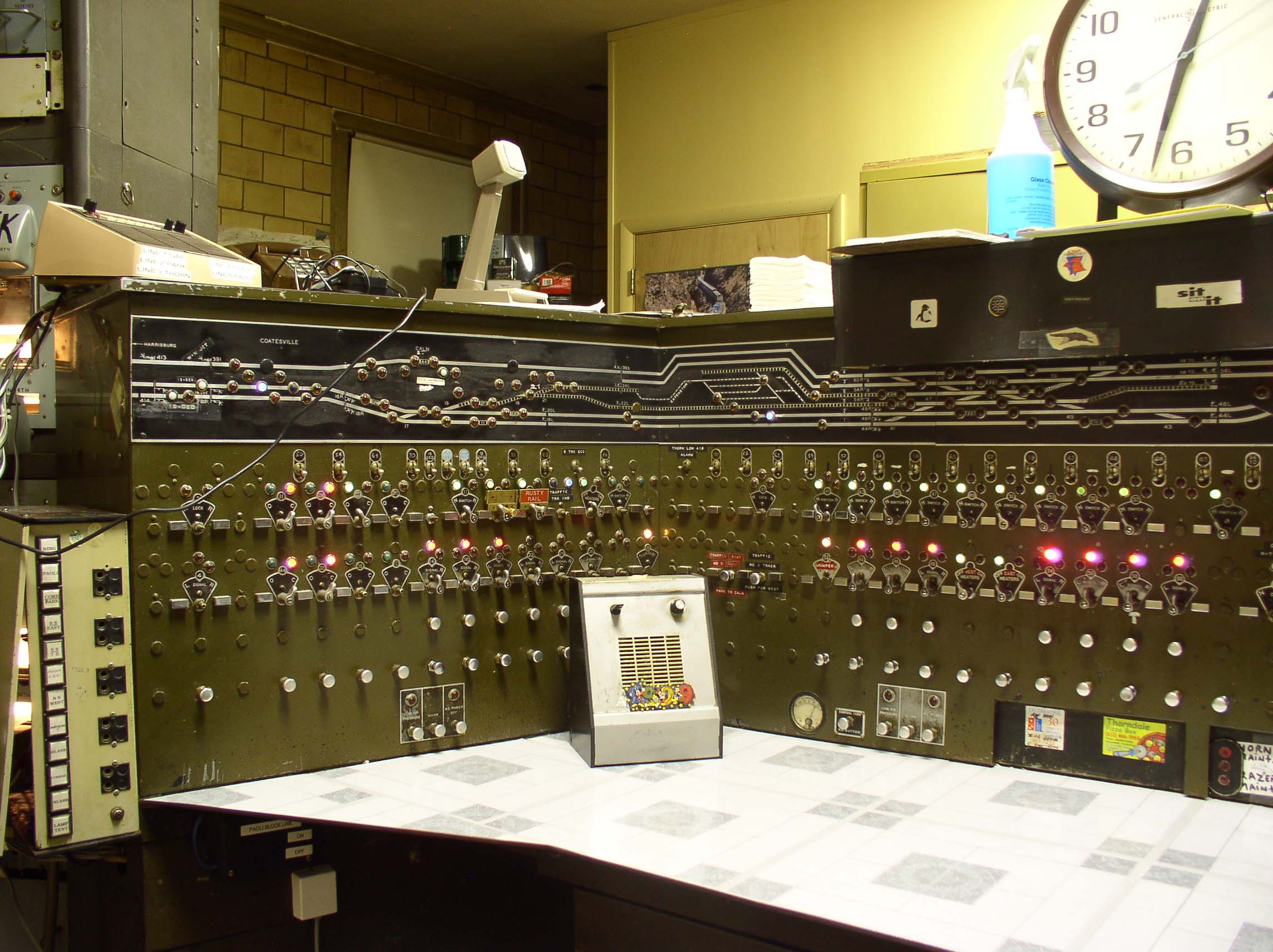 Active Union Switch and Signal CTC machine at Amtrak's THORN Tower.